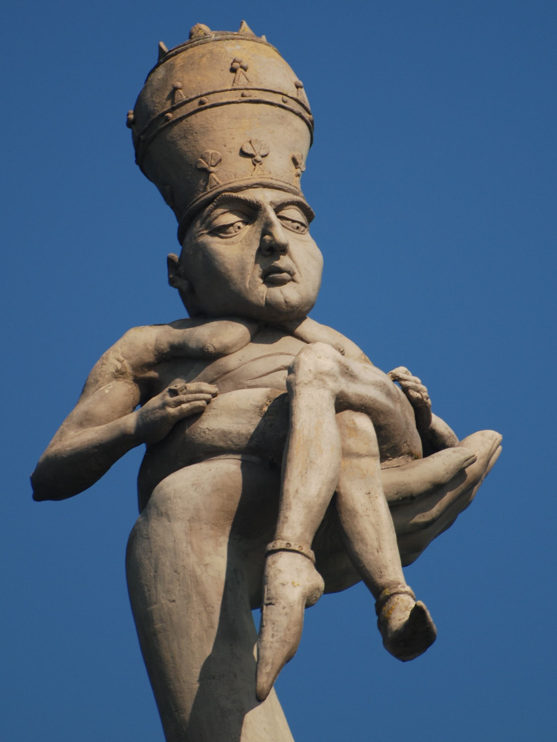 Detail of the pope on the Imperia Statue, Constance, Germany